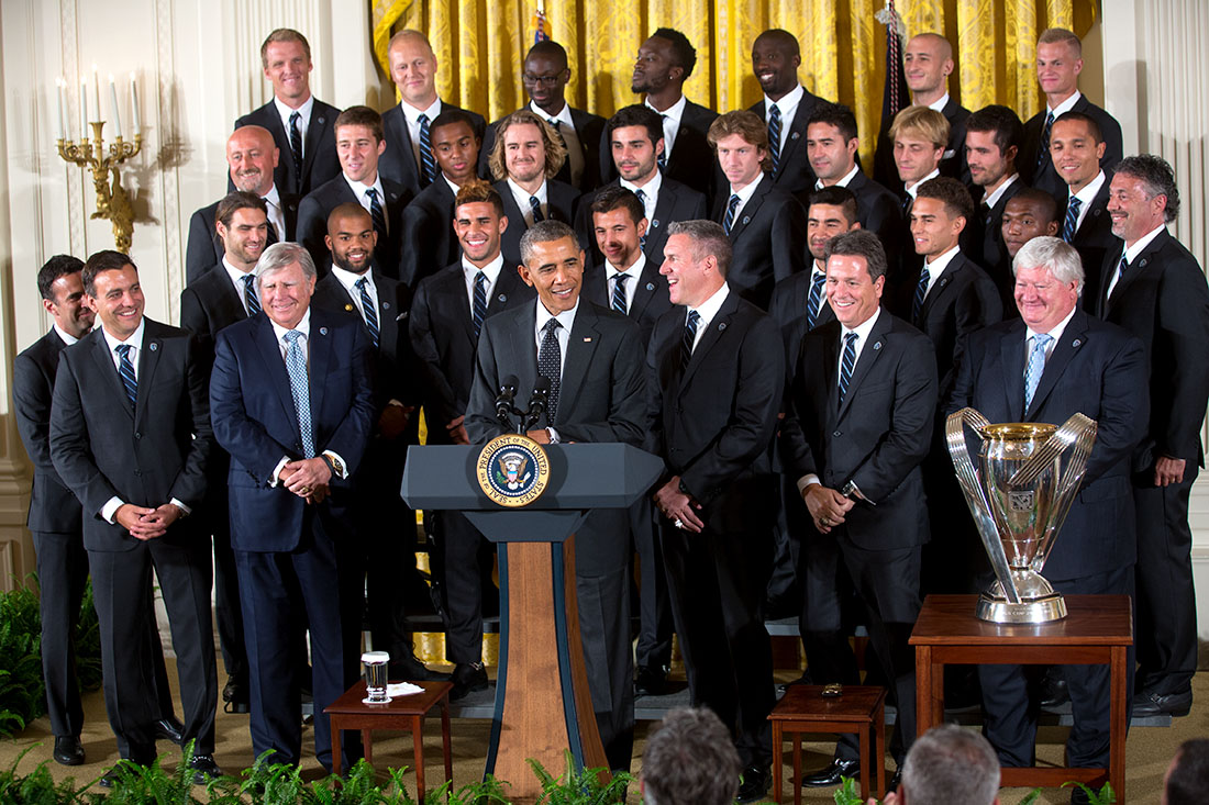 President Barack Obama welcomes Sporting Kansas City to the White House to honor the team and their victory in the 2013 MLS Cup Championship, in the East Room of the White House, Oct. 1, 2014. (Official White House Photo by Lawrence Jackson)